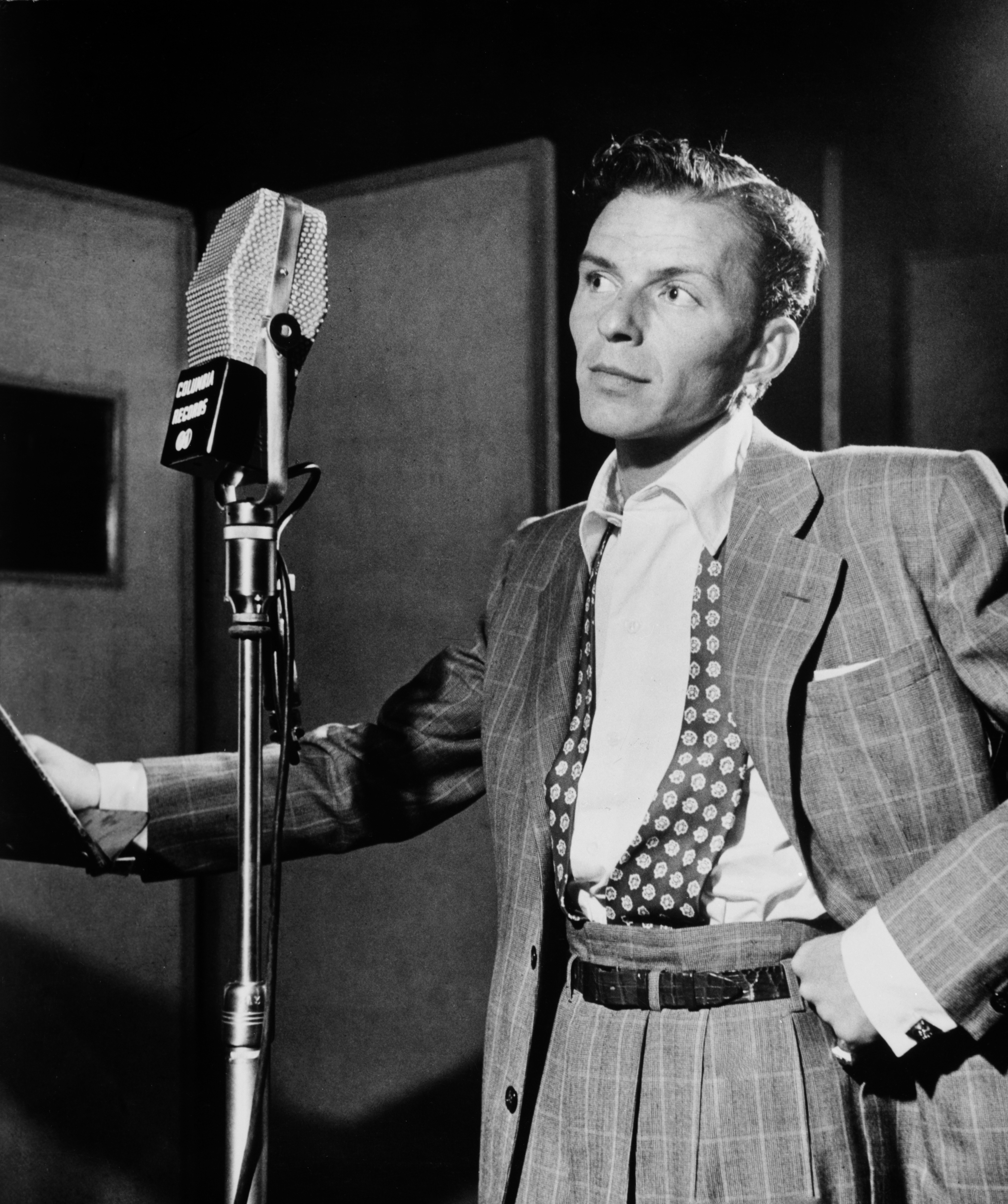 Portrait of Frank Sinatra at Liederkranz Hall, New York.